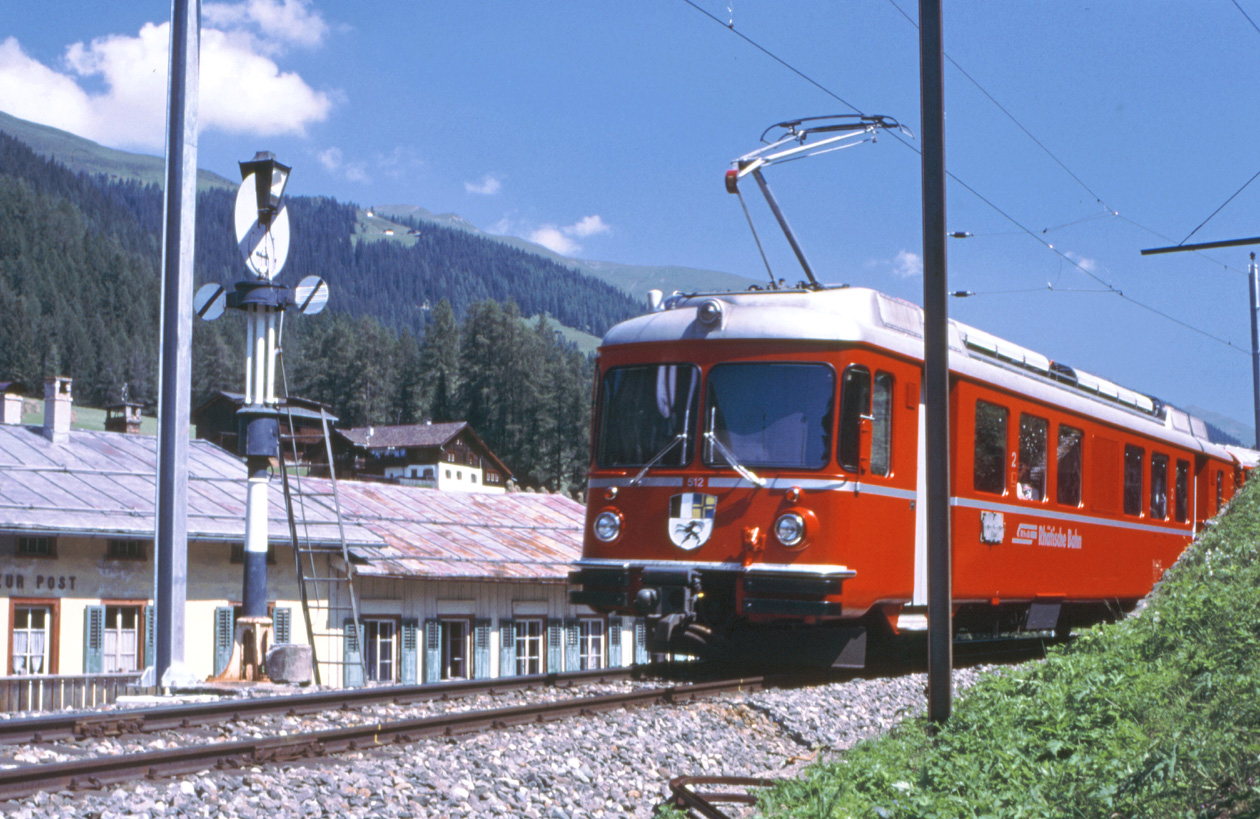 Home signal (replaced) Glaris Station RhB, from direction Monstein with leaving motor coach Be 4/4 512.